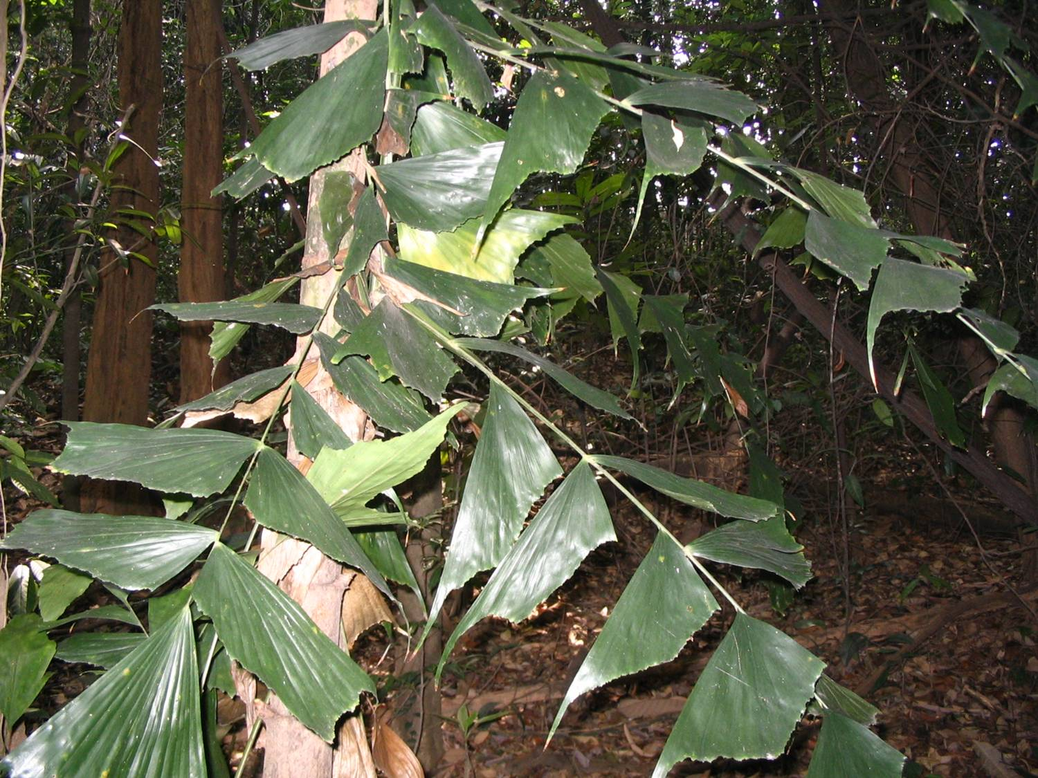 Caryota mitis leaves